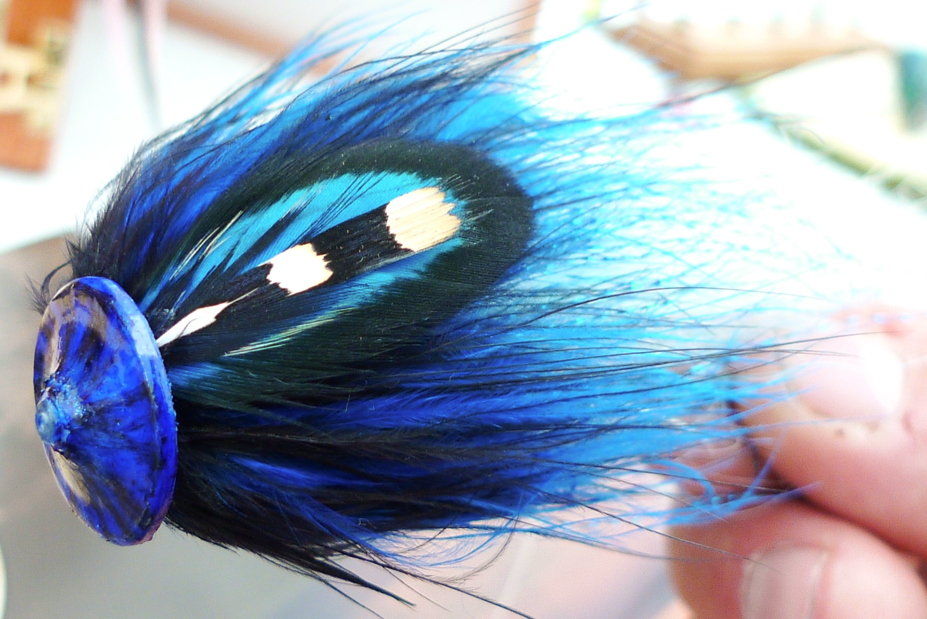 Large blue tube fly